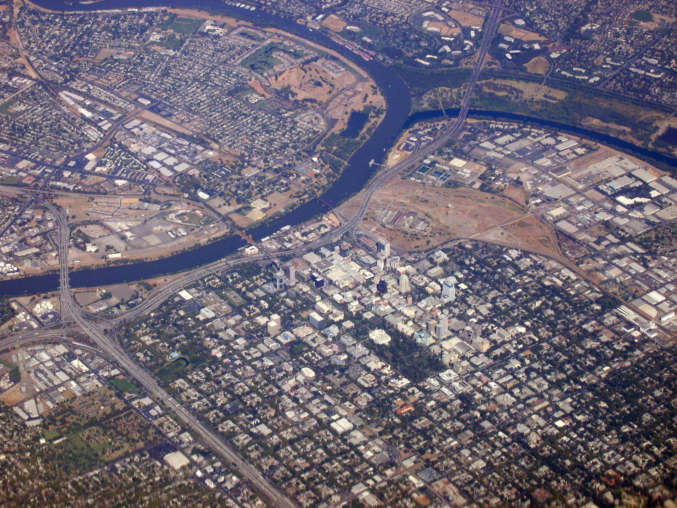 Aerial view of Sacramento, California. At the center is the Tower Bridge, connecting to Downtown (incl. Capitol Park) and Midtown. The large fields of exposed soil by downtown are the Sacramento Railyards project.